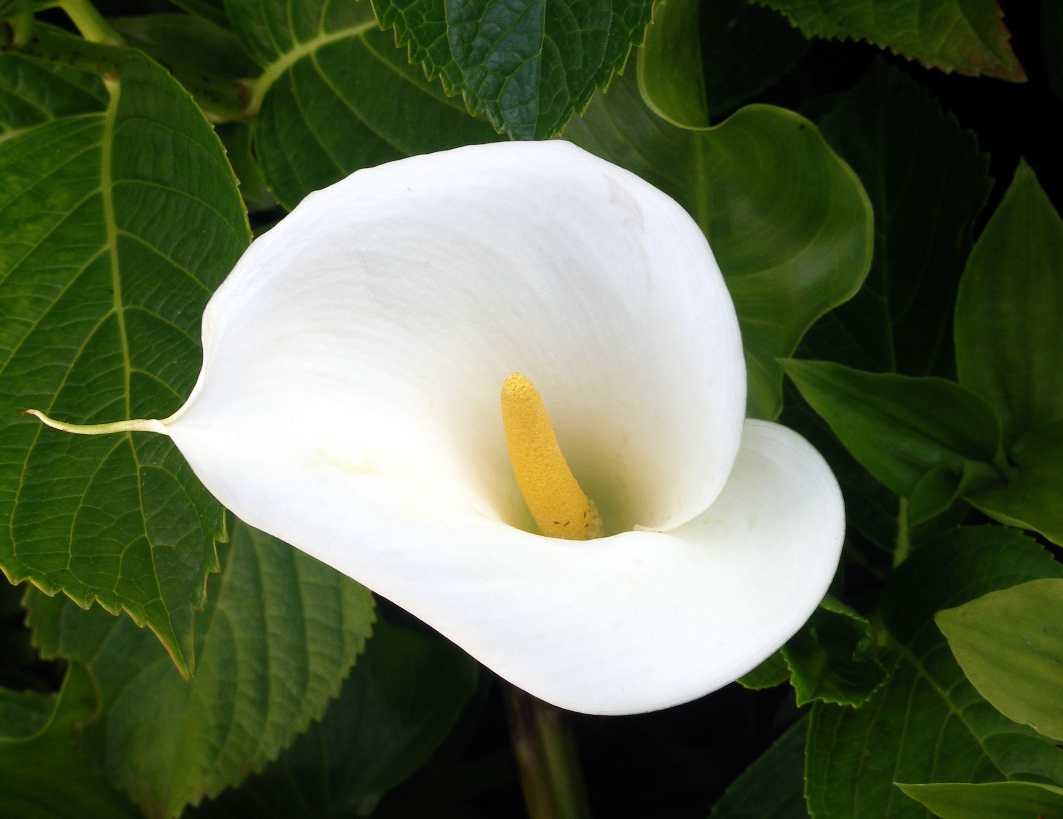 Arum lilly (Zantedeschia aethiopica)